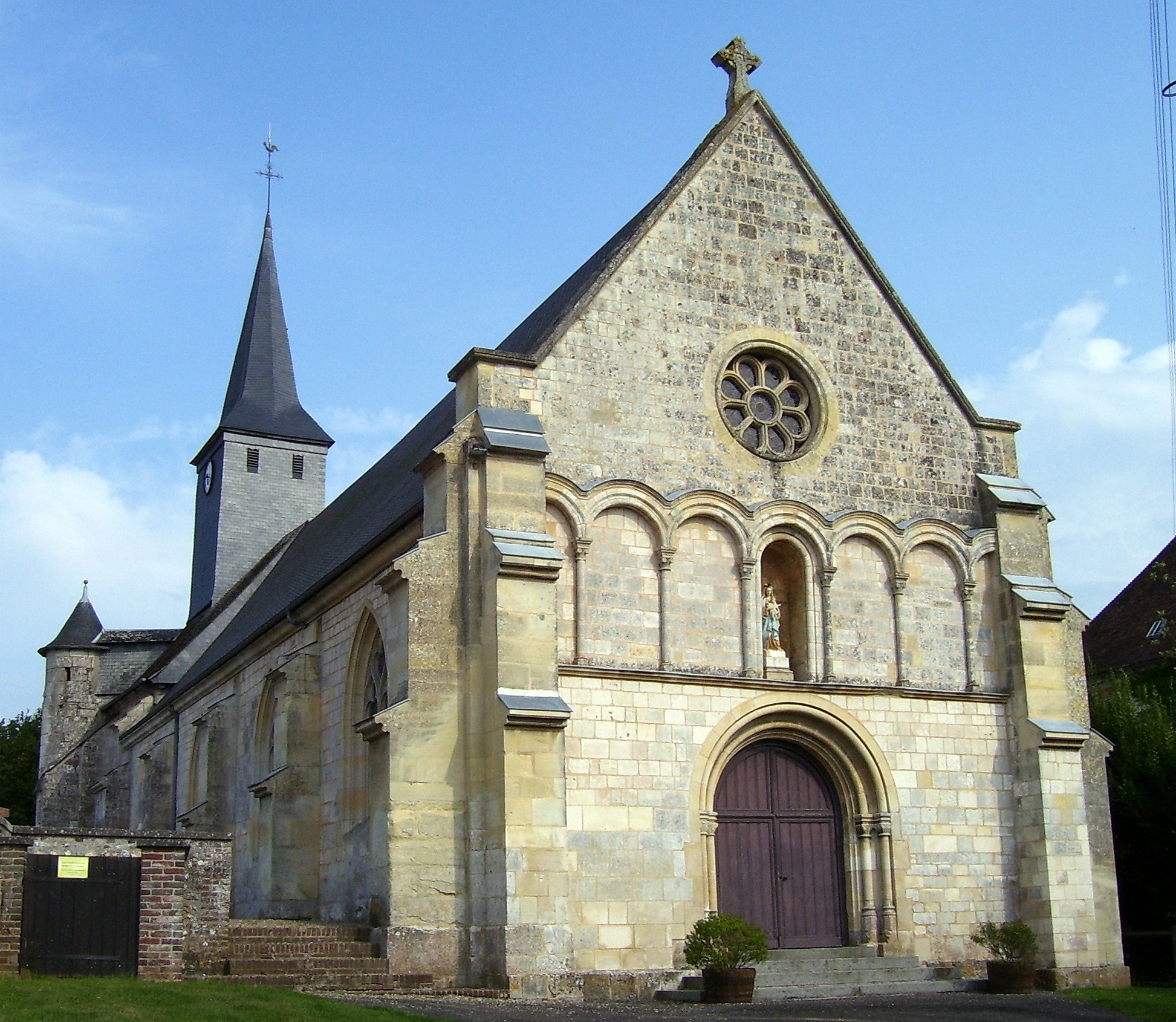 Entrance of the abbeychurch Notre-Dame in Corneville-sur-Risle, departement Eure, Haute-Normandie, France. It was built in the 12th century.